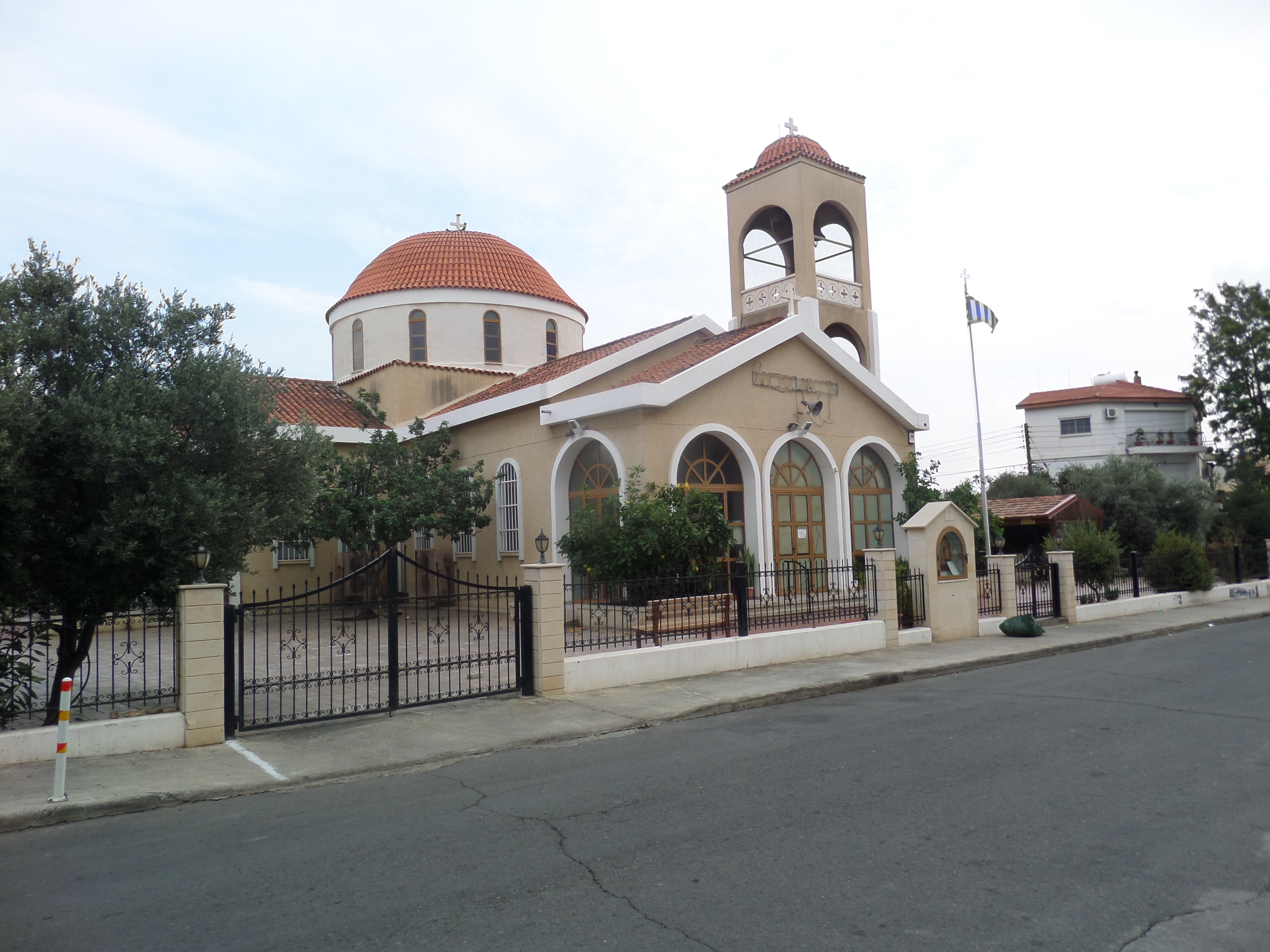 Saint Spyridon's church, Limassol